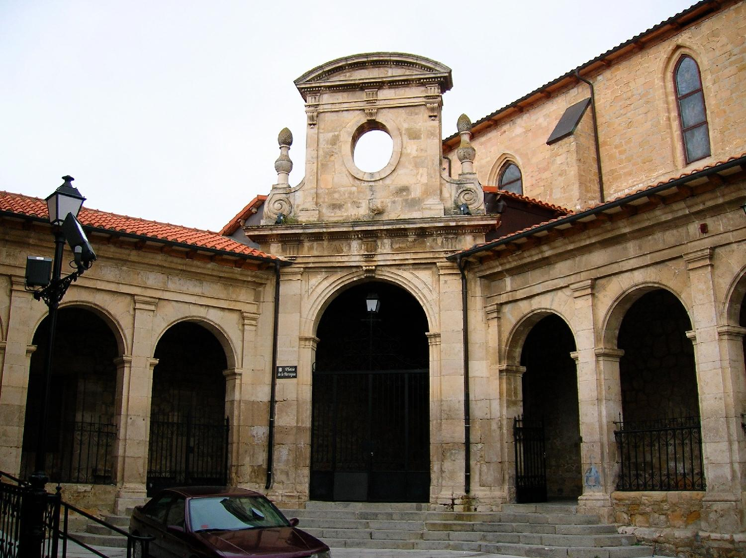 Iglesia de Santa Cruz, en Medina de Pomar (Burgos, Castilla y León, España)